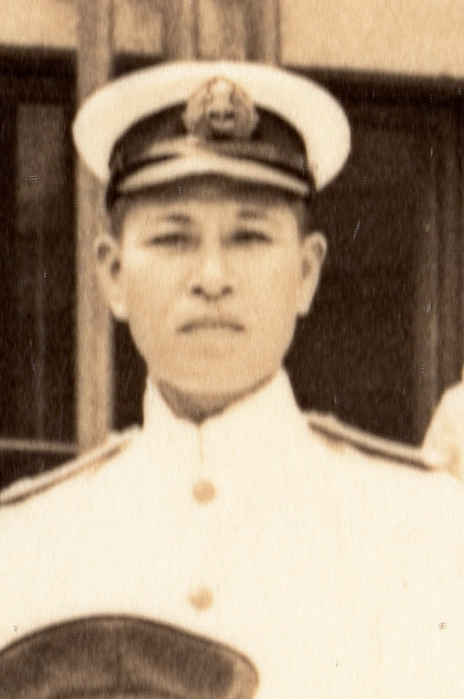 Captain Morishige Yamada